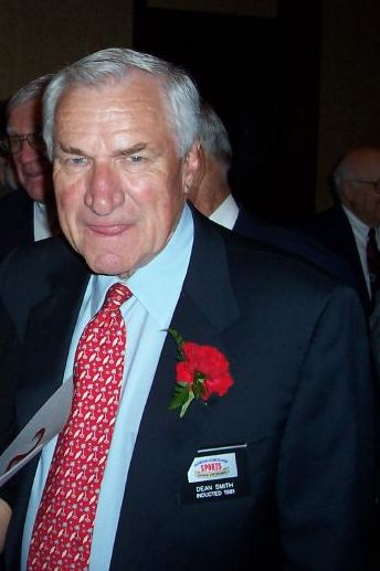 Dean Smith at Hall of Fame Ceremony